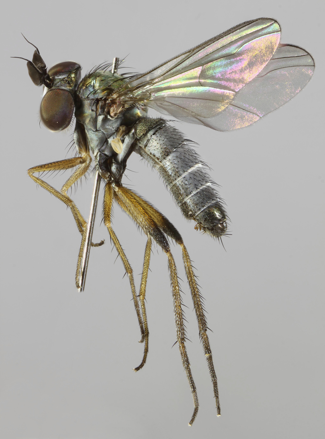 Argyra vestita male, Glaslyn, North Wales, July 2014